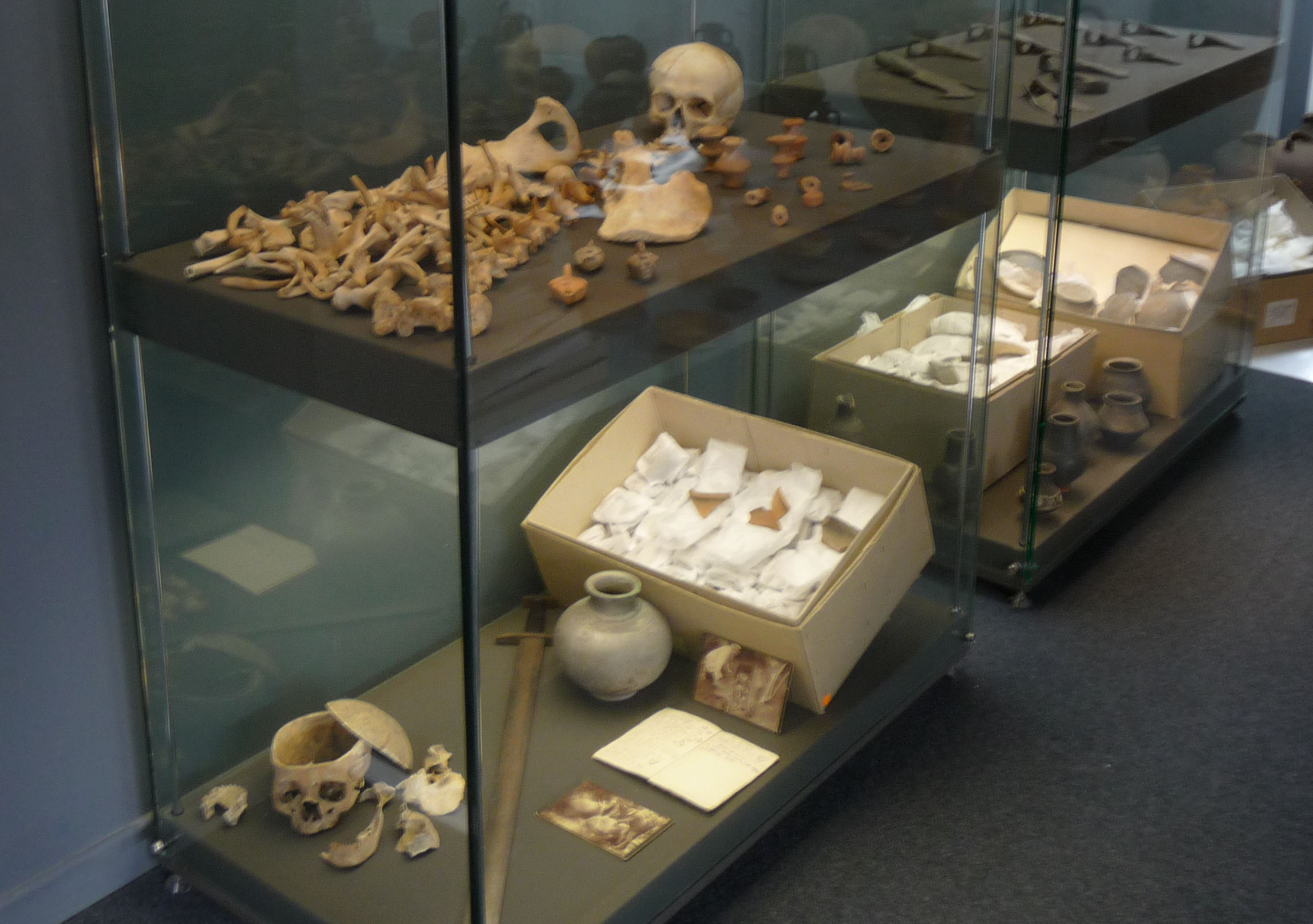 in Ludwigshafen, Germany